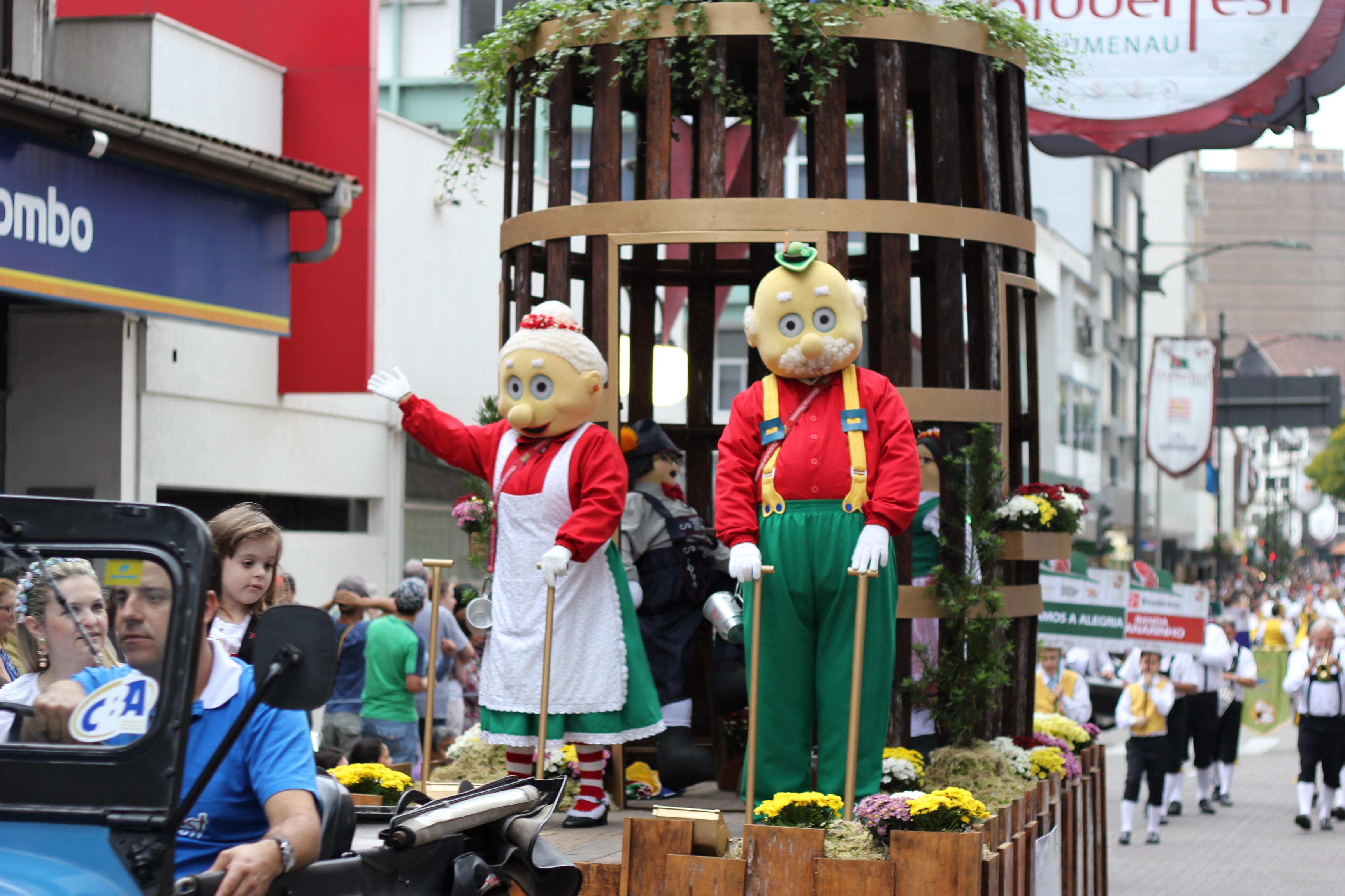 Granpa and Granma Chopão ("Big Beer") in a float at a parade during the Oktoberfest in Blumenau.